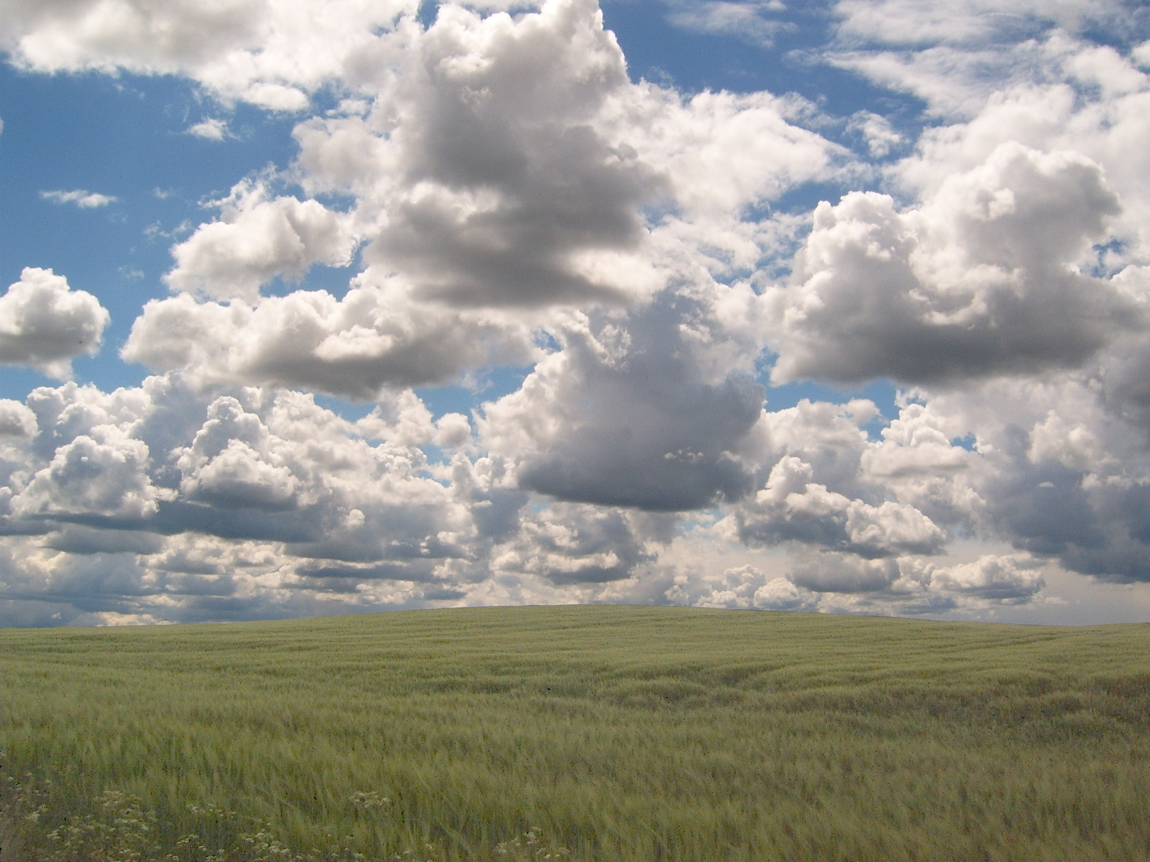 Sky and earth landscape in Uckermark, Brandenberg, Germany